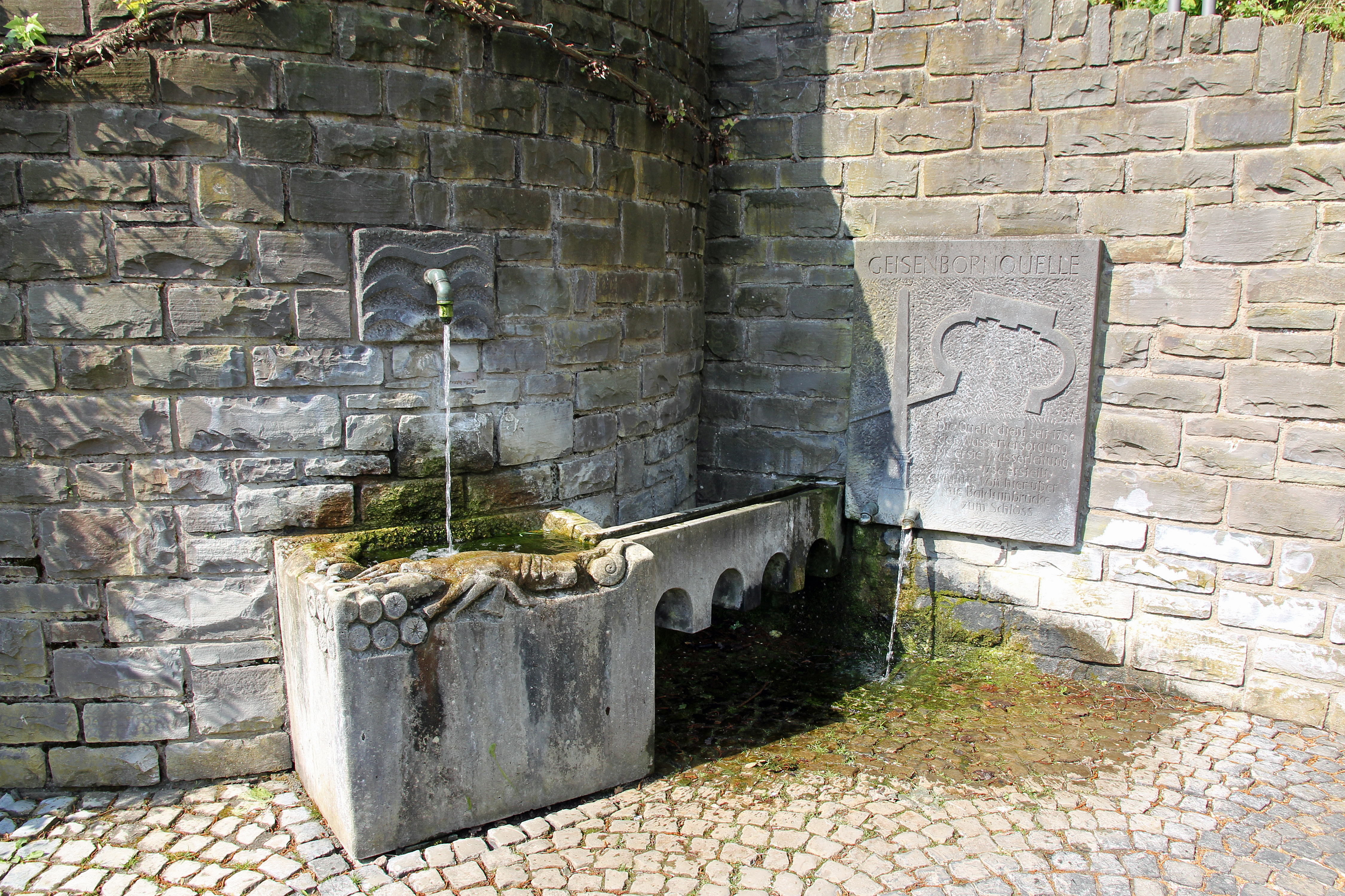 Schönbornbrünnchen in Koblenz